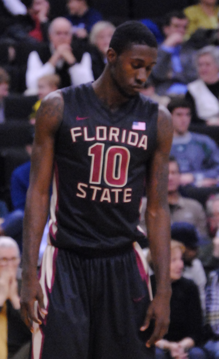 Jim Burr waits to administer the free throw